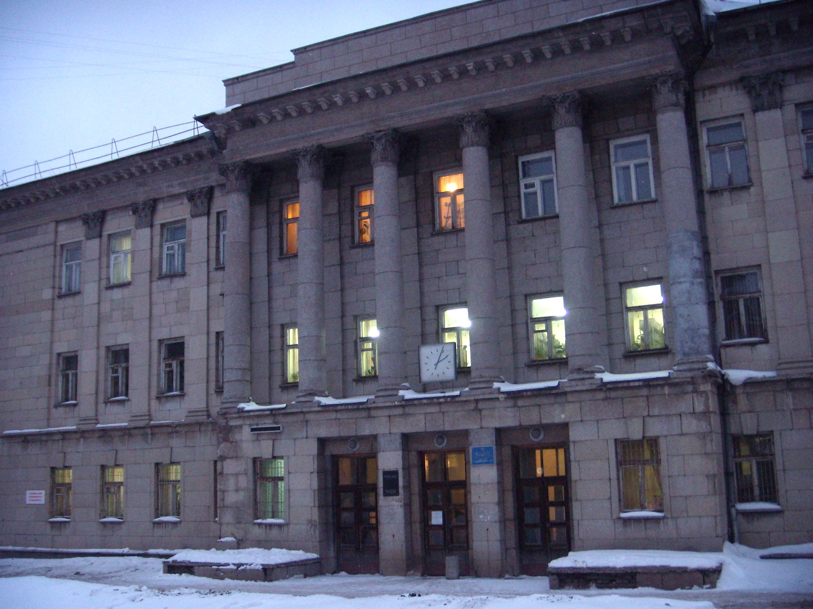 Department of Literature in Foreign Languages Library Herzen